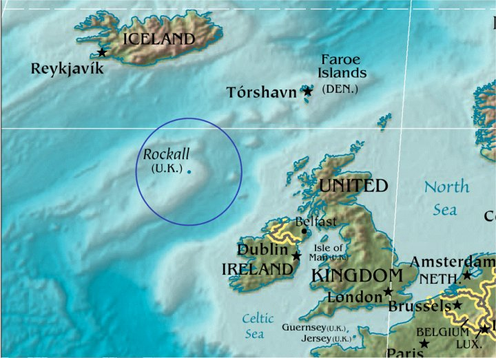 This map shows the location of Rockall.